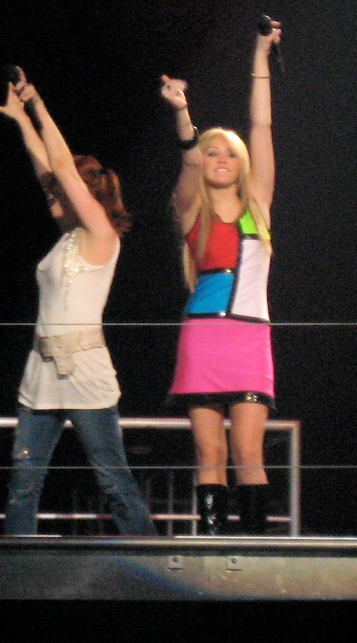 A teen singing.